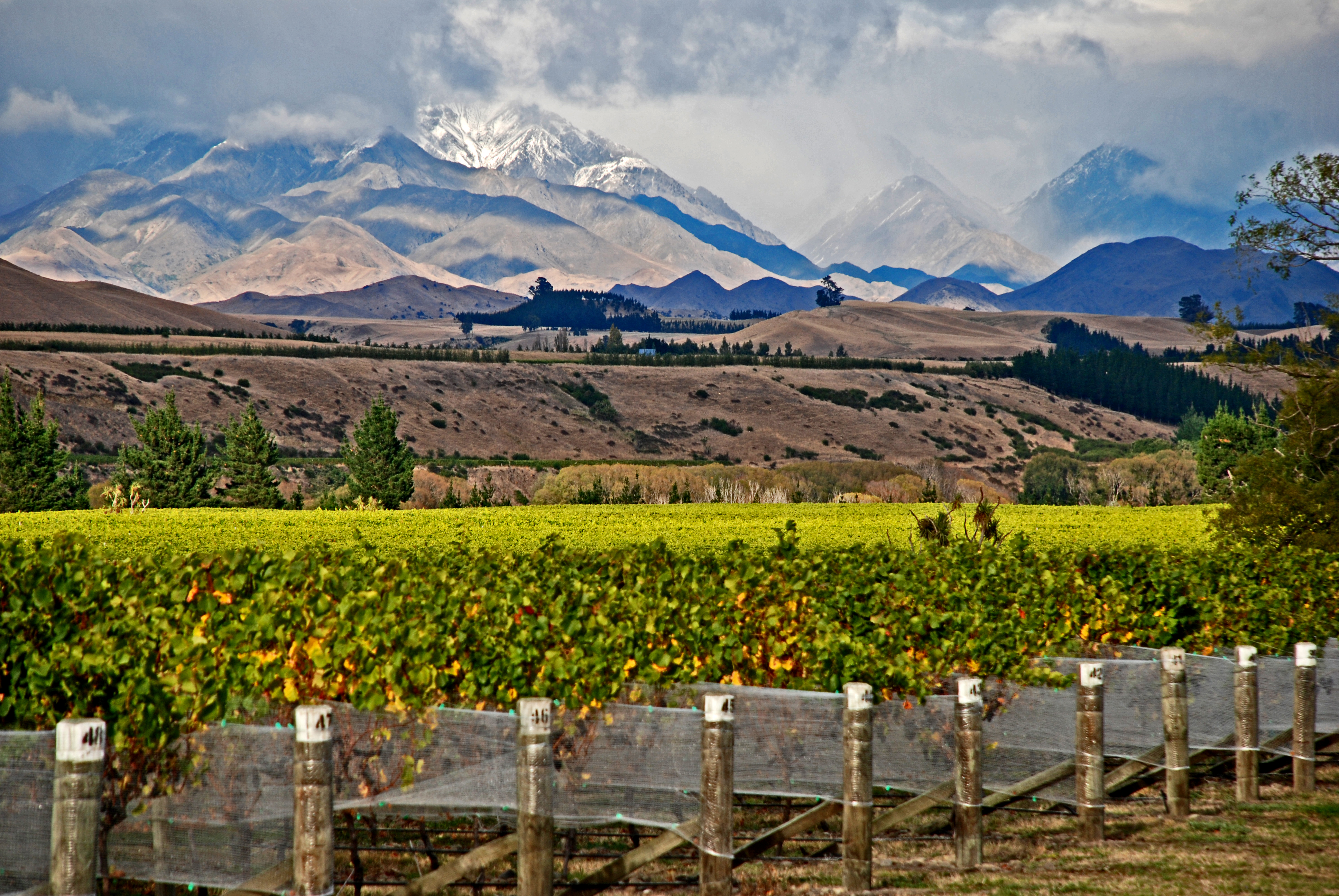 Hard as it may be to believe this 13 April sequence was taken during a working day. I was rushing around the Marlborough High Country as part of a project concerning Merino wool producers. The accumulated photo stops were basically paid for by no lunch. This didn't matter because the hospitality of back country farmers meant that the business was almost always conducted while drinking coffee and munching biscuits.